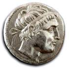 Sparta, Kleomenes III. 235-221 BC. Silver Tetradrachm (16.83 gm). 227-222 BC. Diademed head of Kleomenes left (mirrored image)